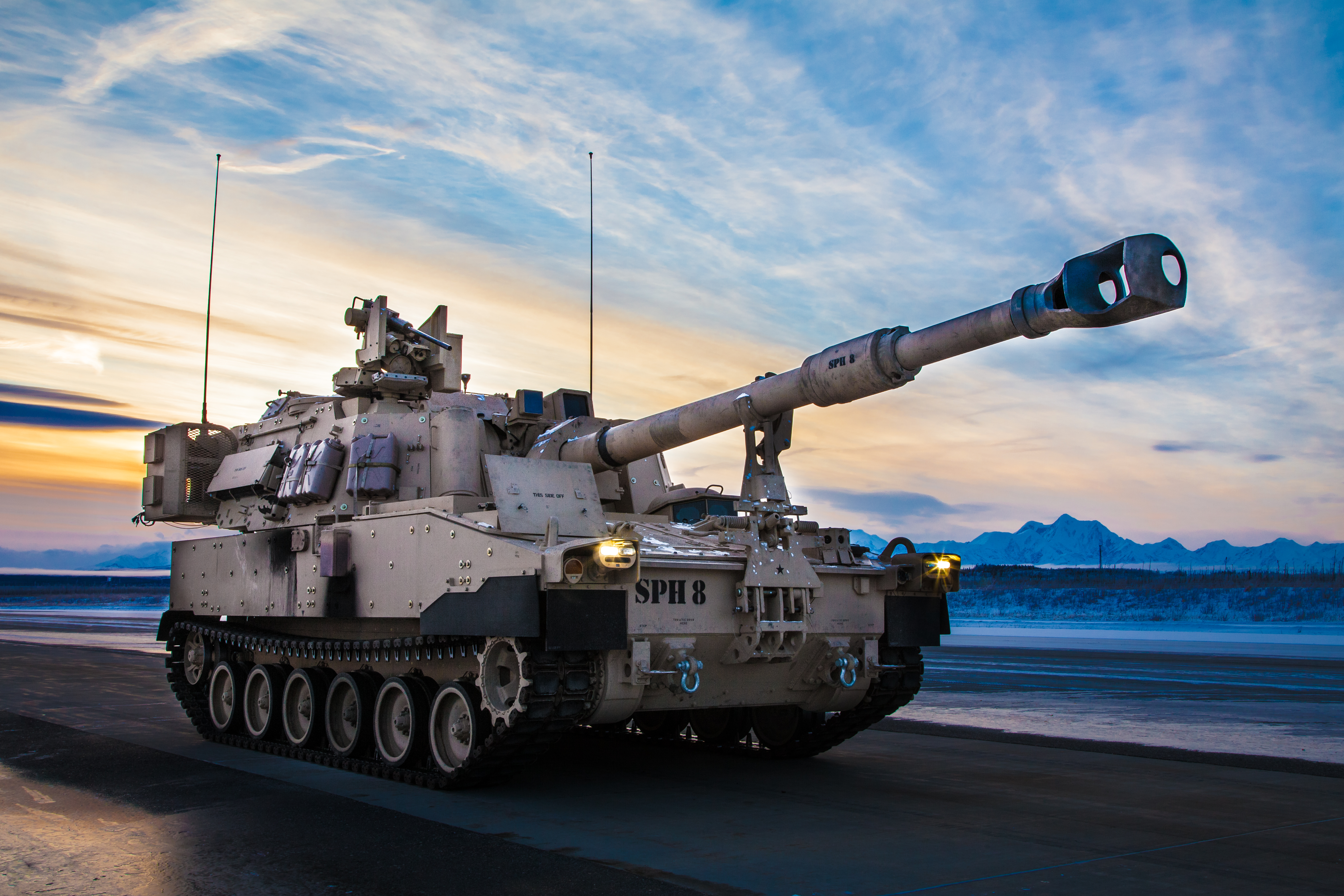 Working amid freezing temperature in the dead of the Alaska winter, the Army's newest howitzer is put through its paces at the Cold Regions Test Center, Alaska.